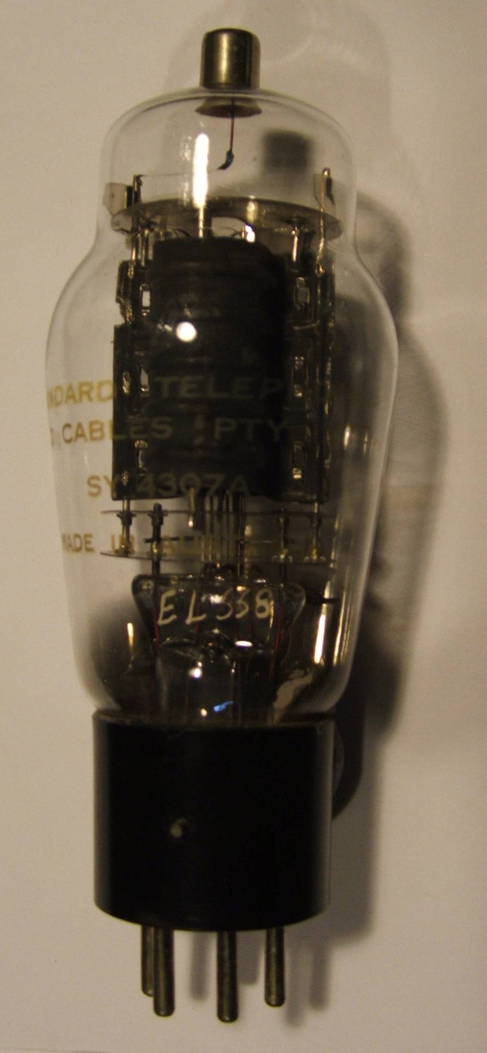 SY4307A Thermionic Valve/Vacuum Tube (Face View), 130KB. Created: 3rd April 2009. Author: Andrew Kevin Pullen. Source: My own work.